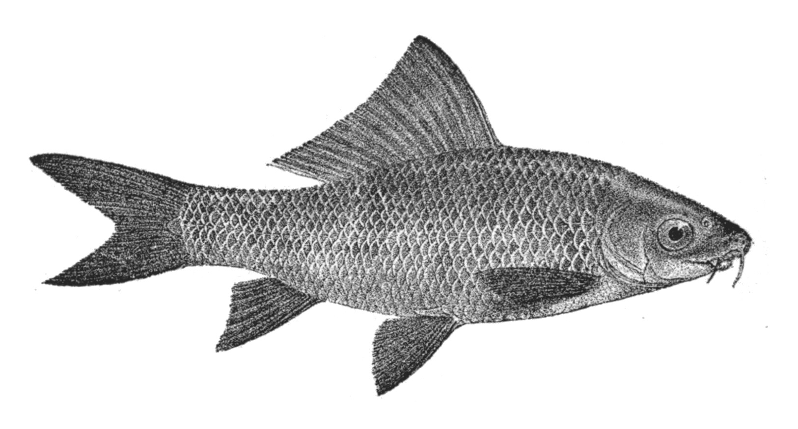 Labeo calbasu (Hamilton, 1822).